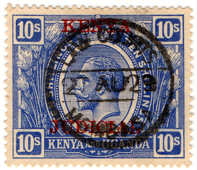 10s Judicial revenue stamp of Kenya, Uganda & Tanganyika.